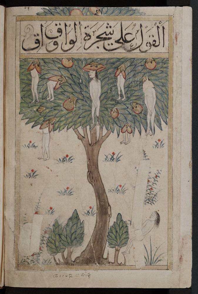 The Waq-waq tree. Illustration of a tale. Page from a manuscript known as Kitab al-bulhan or "Book of Wonders" held at the Bodelian Library. Shelfmark: MS. Bodl. Or. 133